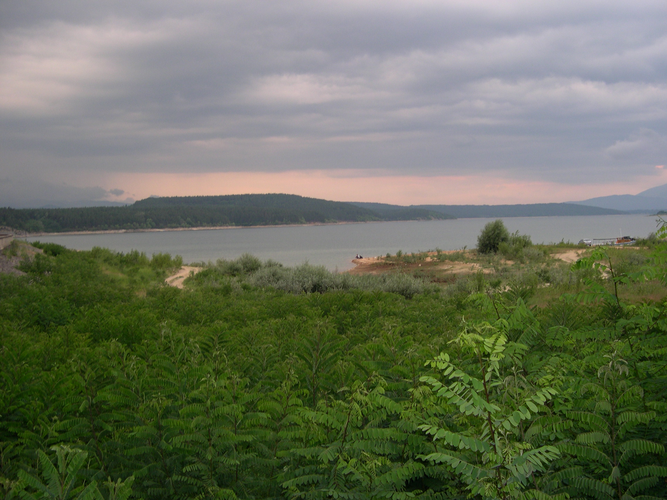 Photo near the Seuthopolis project at Kazanlak, Starra Zagora, Bulgaria. The area near the artificial lake in Bulgaria is now being studied to excavate an ancient city at the bottom of lake in Kazanlak